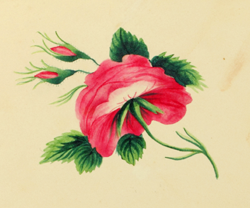 Flower by Sarah Mapps Douglass, from the Amy Matilda Cassey album, c.1833. Watercolor and goache.